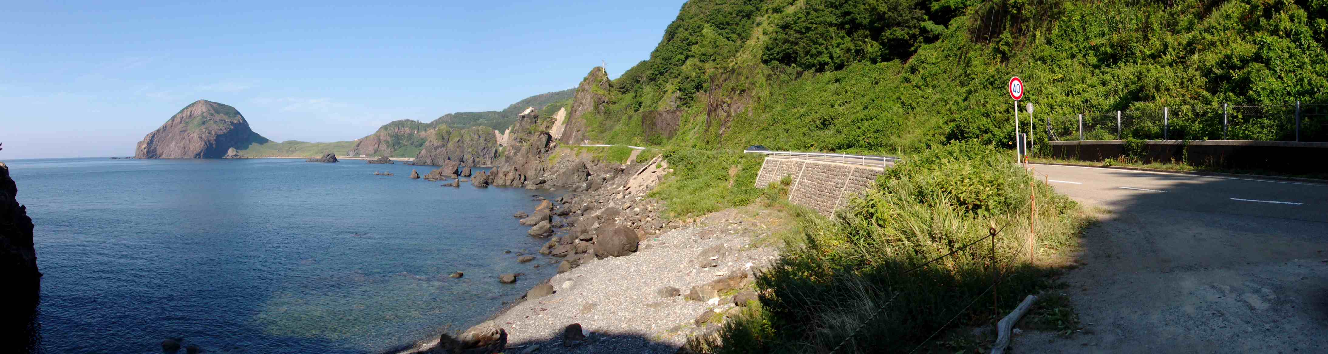 Long Distance triathlon course in Sado island, Japan